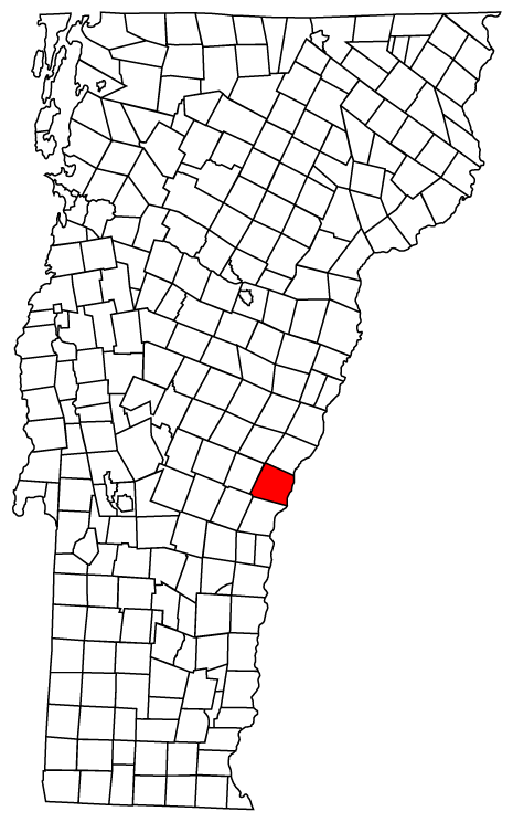 Map of Vermont towns with Hartford highlighted